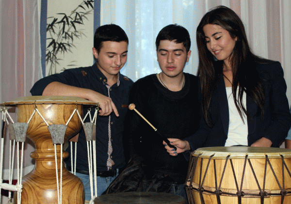 Korea Center